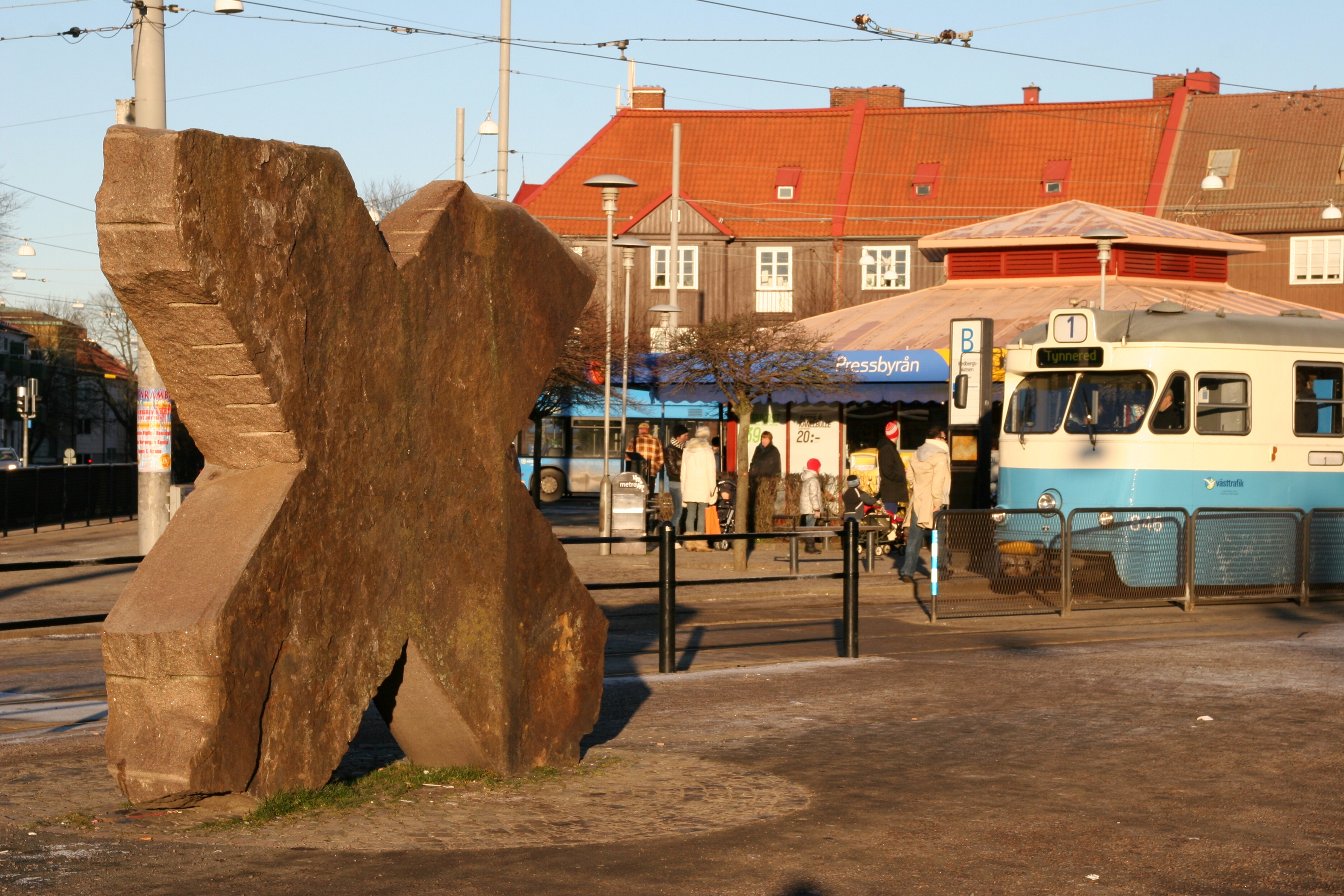 Sculpture "Klippdocka" in Gothenburg, Sweden.